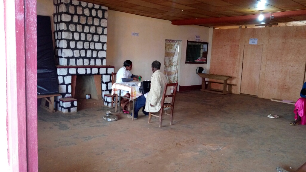 Patient registration at the Divine Mercy Health Post Nkongle